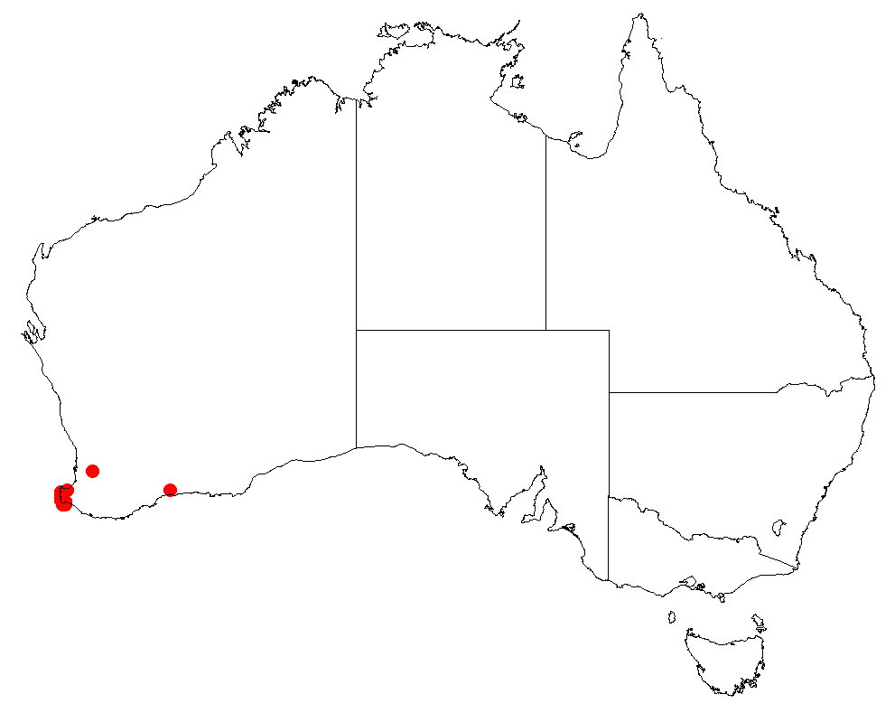 Bossiaea disticha Occurrence data downloaded 11 September 2018 from Australasian Virtual Herbarium